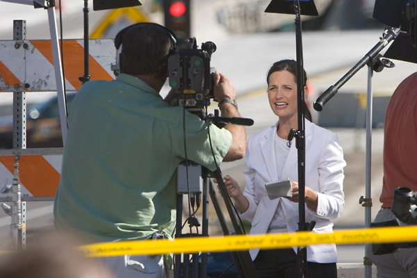 TV reporter Contessa Brewer in action at the site of the collapse of the I-35W Mississippi River Bridge.